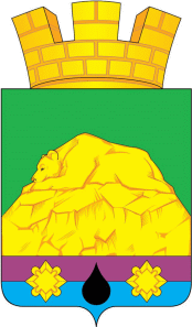 Coat of arms of Ilski, Severskaya Raion, Krasnodar Krai, Russia.